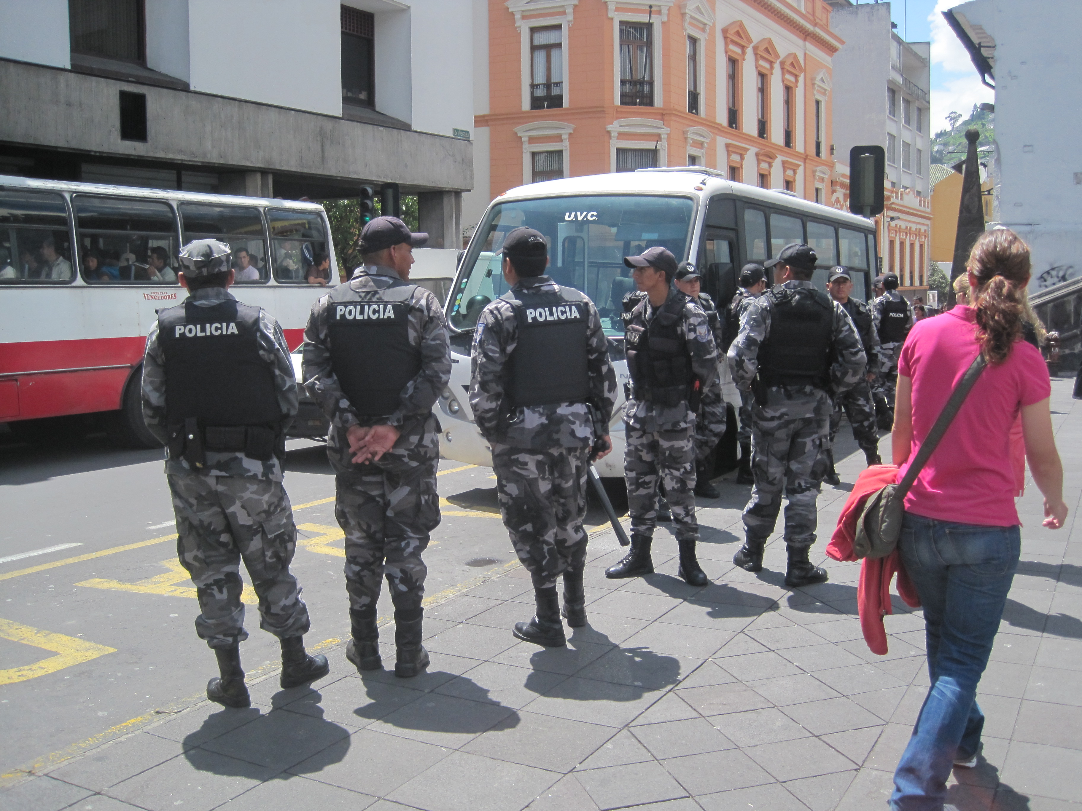 Members of the National Police of Ecuador in Quito.